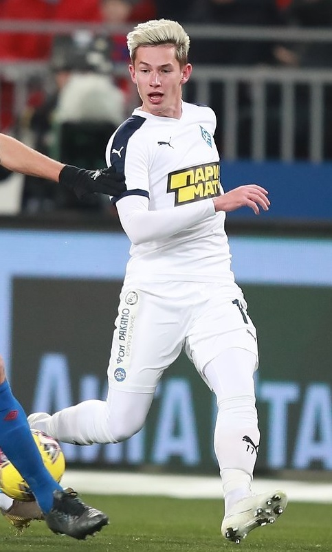 Anton Zinkovsky with PFC Krylia Sovetov Samara in a game against PFC CSKA Moscow.